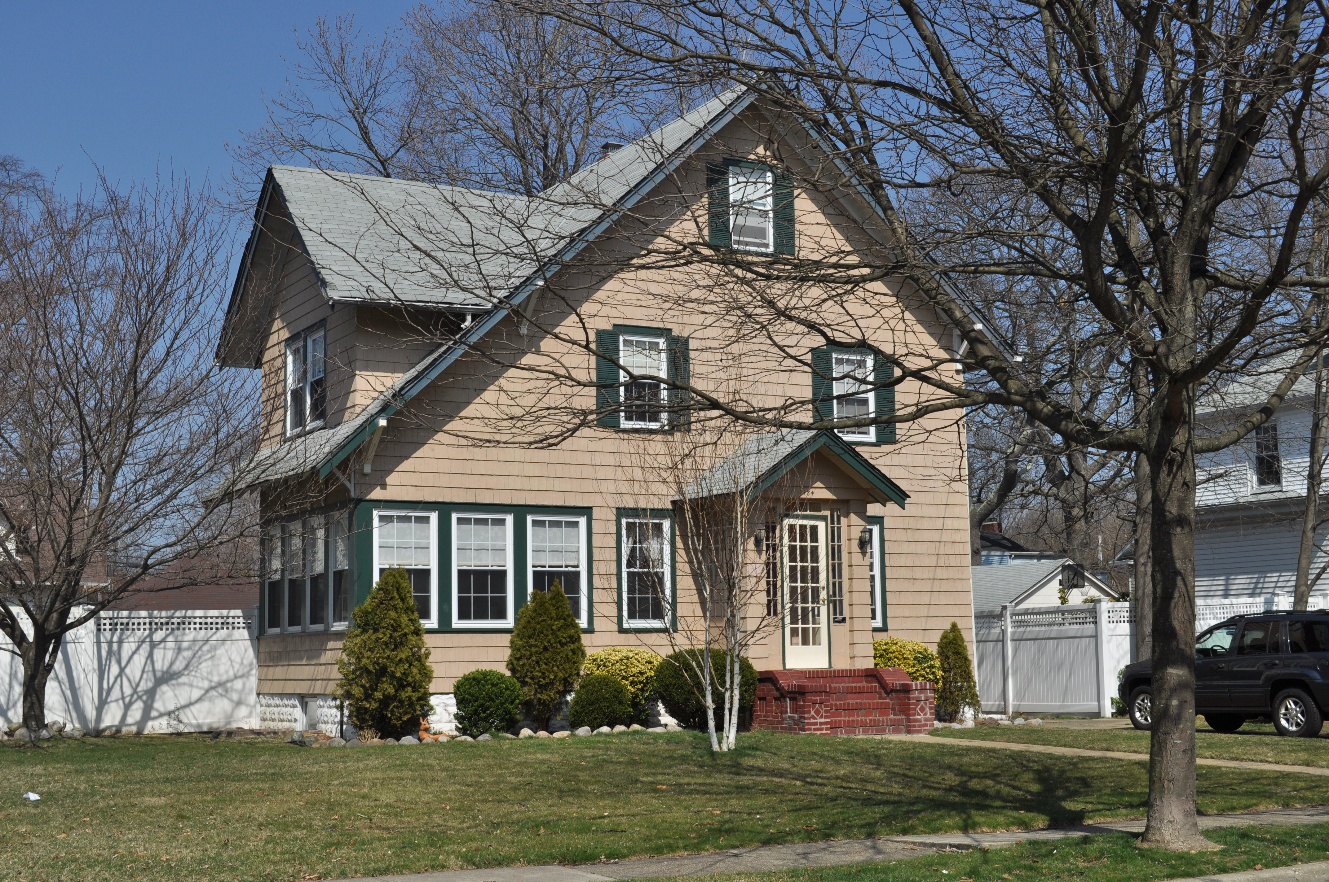 184 Lena Avenue, Freeport, Long Island, New York.